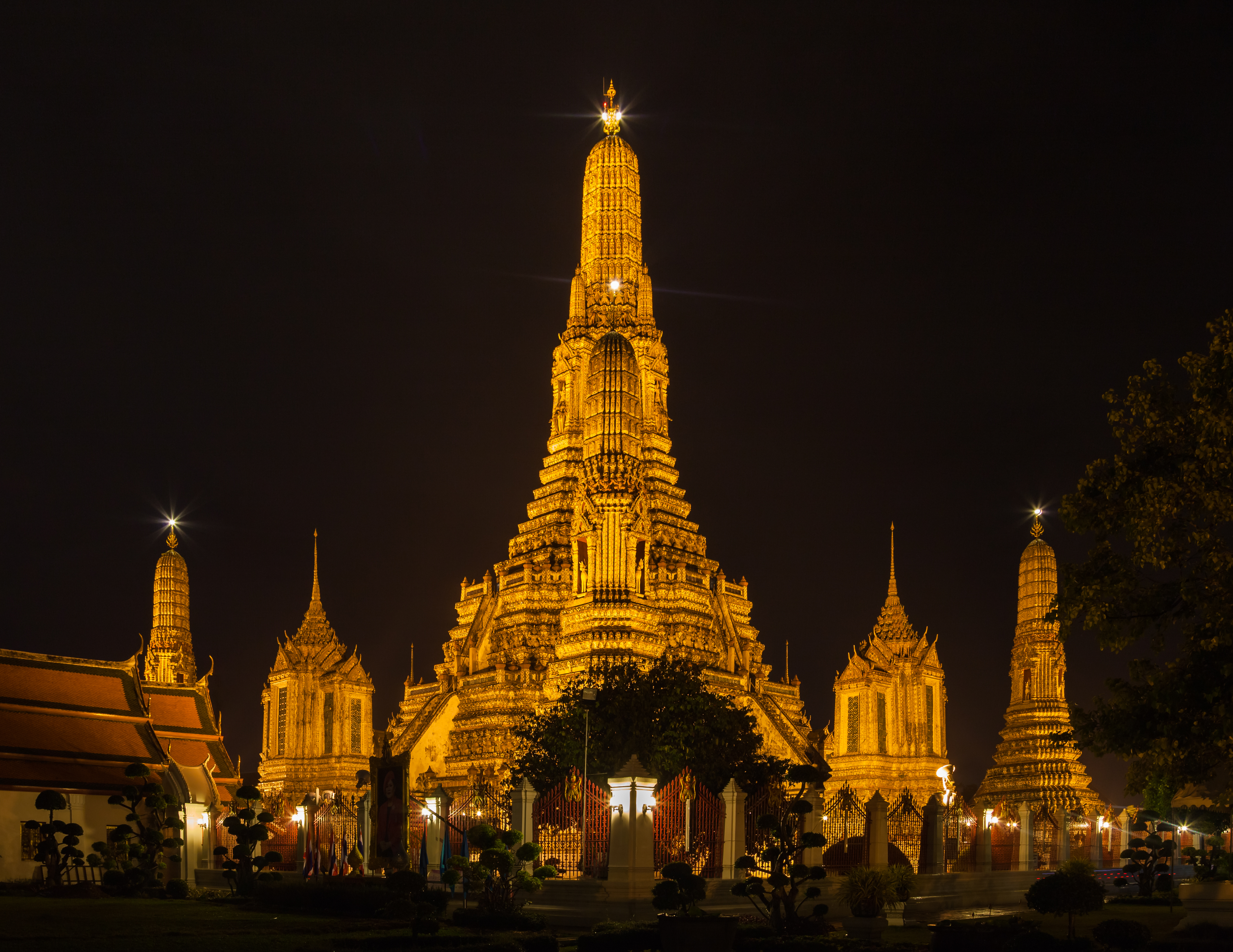 Wat Arun, a temple situated in the city of Bangkok.